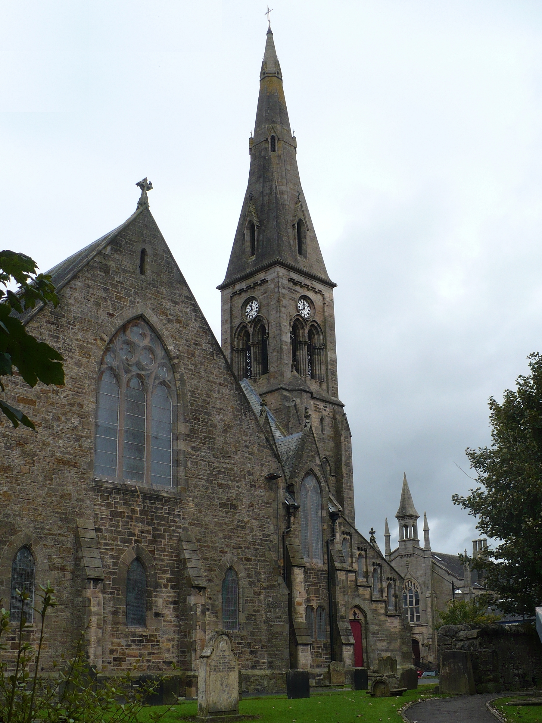 St. Margaret's Church with Trinity Church in the background. Dalry, North Ayrshire, Scotland